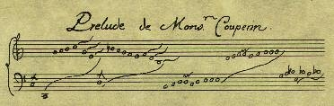 The beginning notes of one of Louis Couperin's unmeasured preludes.